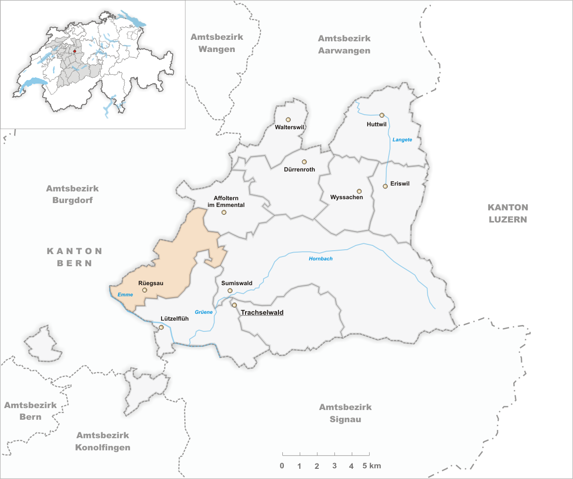 Municipality Rüegsau